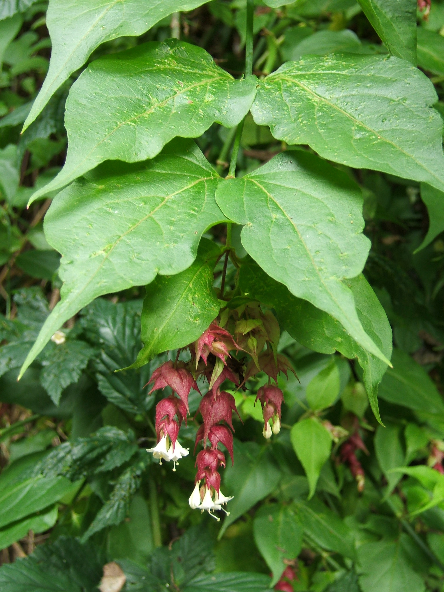 Leycesteria formosa in flower